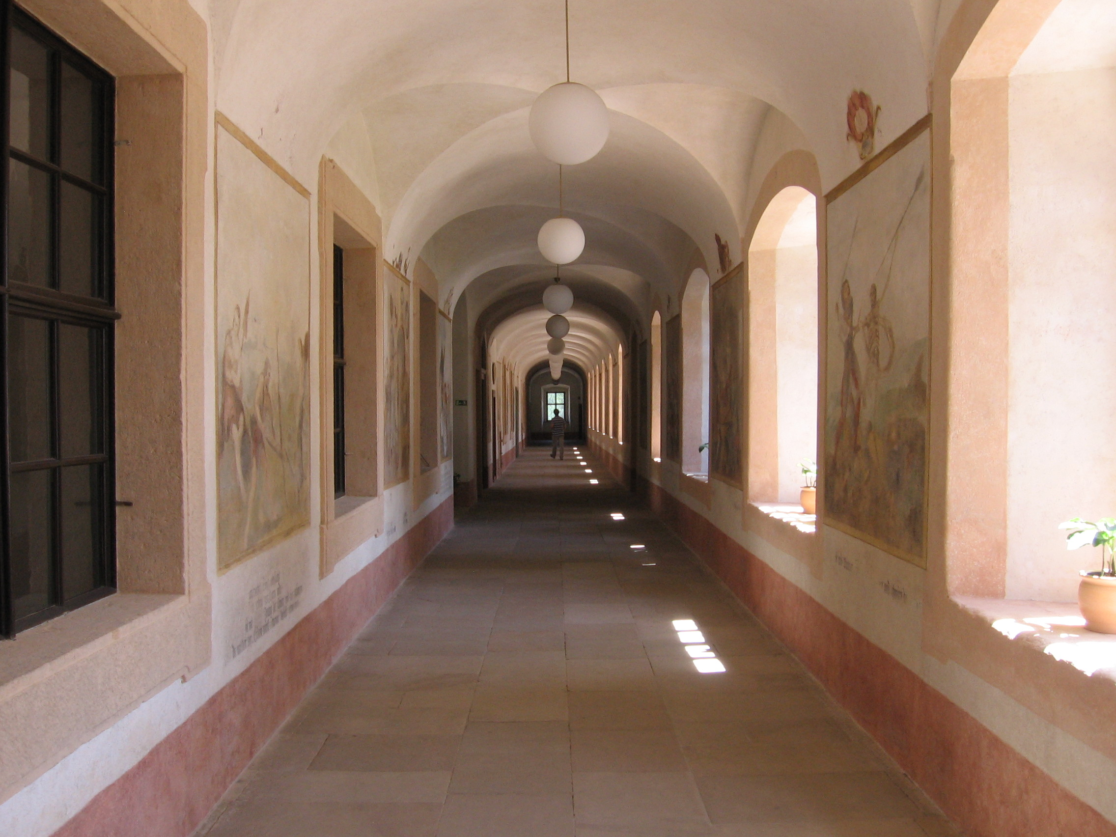 Dance of Death in the main corridor of the historical hospital in Kuks